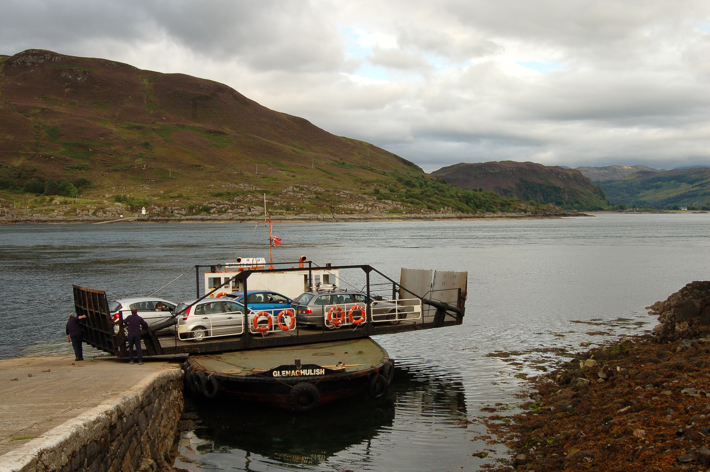 MV Glenachulish ferry. At Kylerhea slipway.